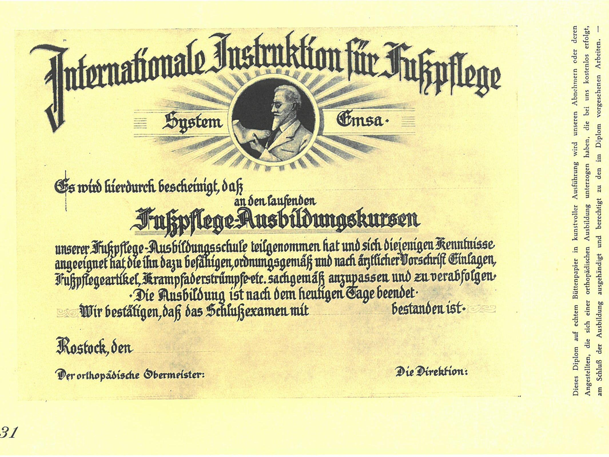 EMSA-Werke: 1931 advertising for its chiropodistic courses